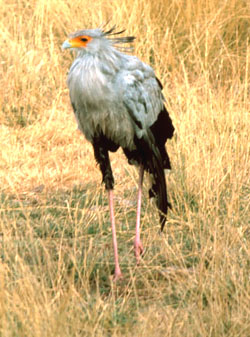 Secretary Bird, Tanzania